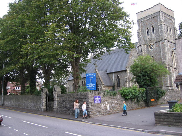 St Michael the Archangel parish church, Two Mile Hill, Kingswood, Bristol, seen from the northwest